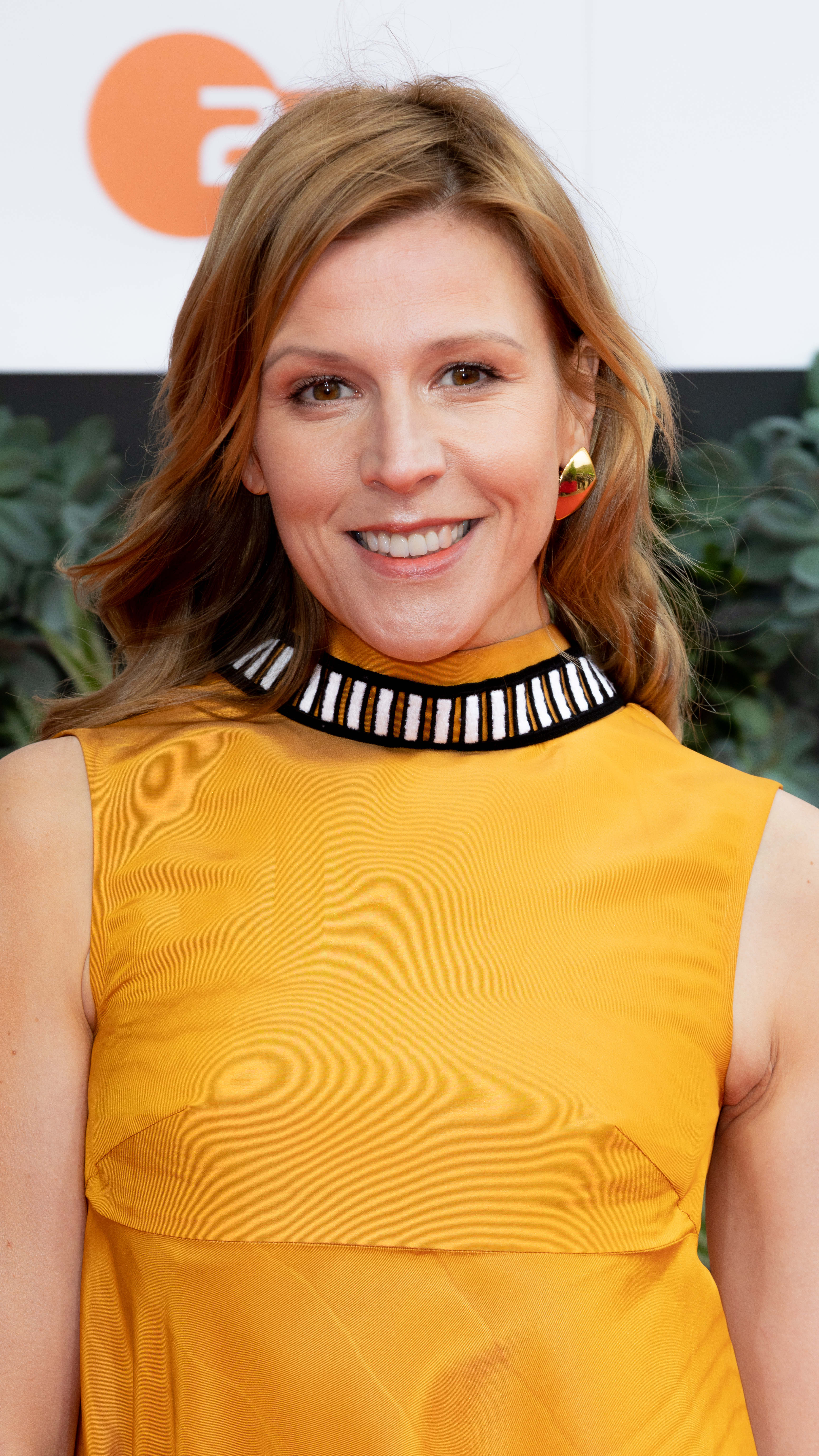 Franziska Weisz on the red carpet of the German Film Award 2019, Palais am Funkturm, Berlin.